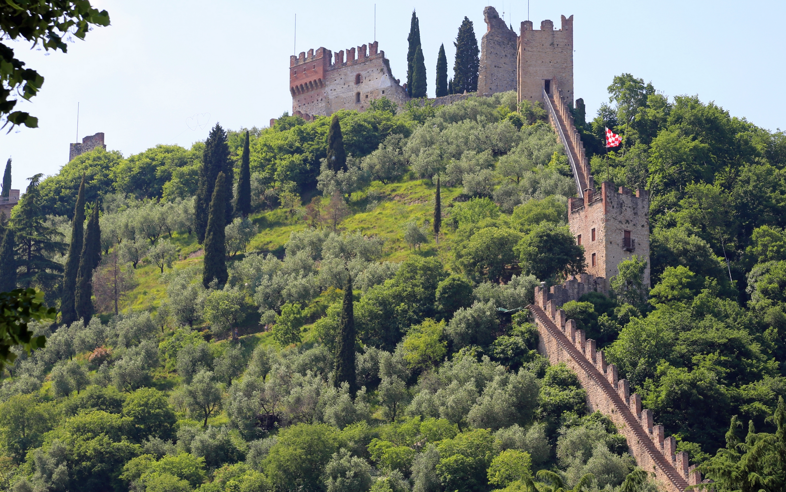 Marostica Upper Castle with fence walls on the hill This is a photo of a monument which is part of cultural heritage of Italy.